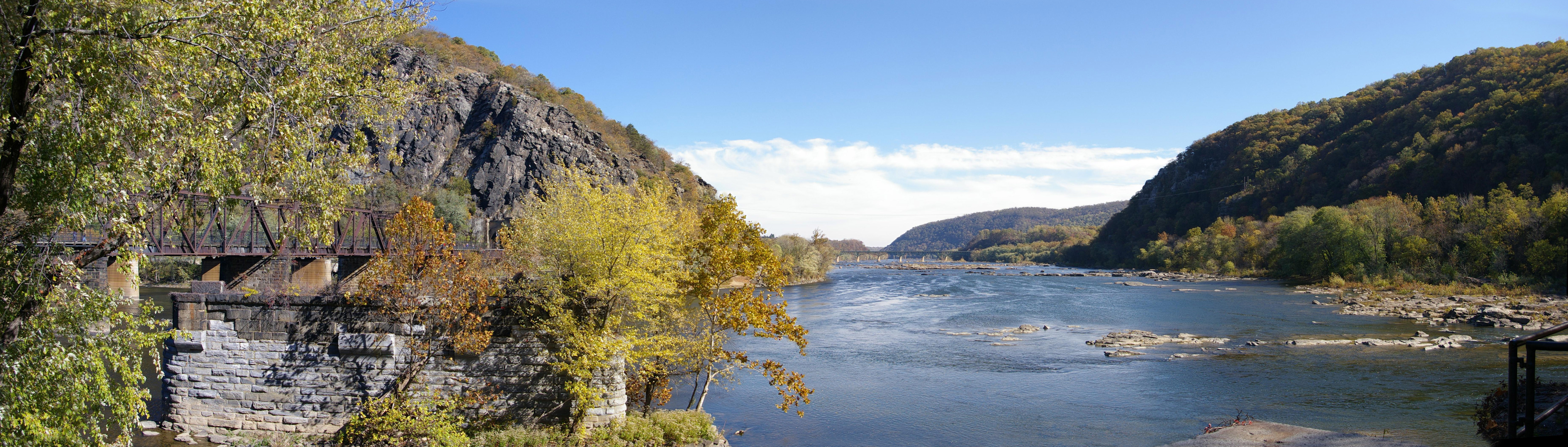 Panoramic photograph of the Shenandoah River (coming from right side) and the 1894 Potomac River railroad bridge in Harpers Ferry, West Virginia, 2007. Photograph by Joy Schoenberger